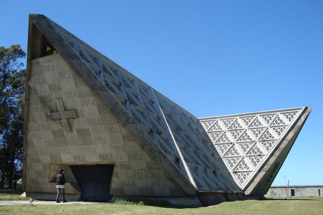 Capilla Susana Soca, Soca, Canelones, Uruguay